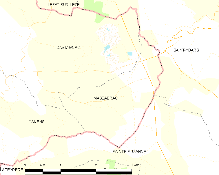 Map commune FR insee code 31326.png This map may be incomplete, and may contain errors. Don't rely solely on it for navigation.